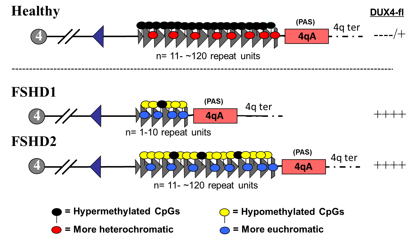 This is an illustration by Peter Jones PhD that describes the complex interplay of genetics and epigenetics of FSHD.